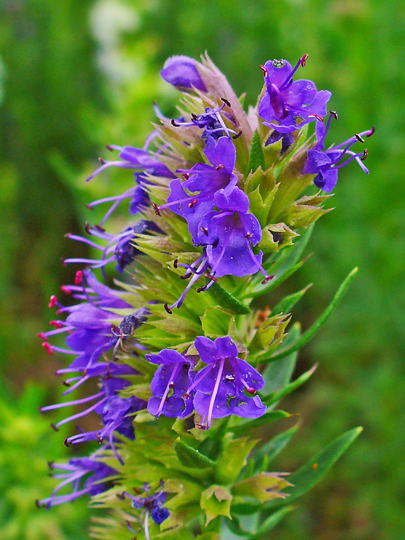 Hyssopus officinalis, Lamiaceae, Herb Hyssop, flowers. The fresh, aerial parts of blooming plants are used in homeopathy as remedy: Hyssopus officinalis (Hyssop.)